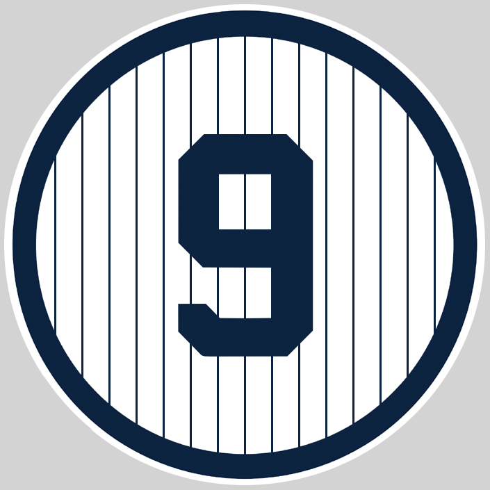 Image represents the current version of Roger Maris' No. 9 seen in Monument Park in Yankee Stadium